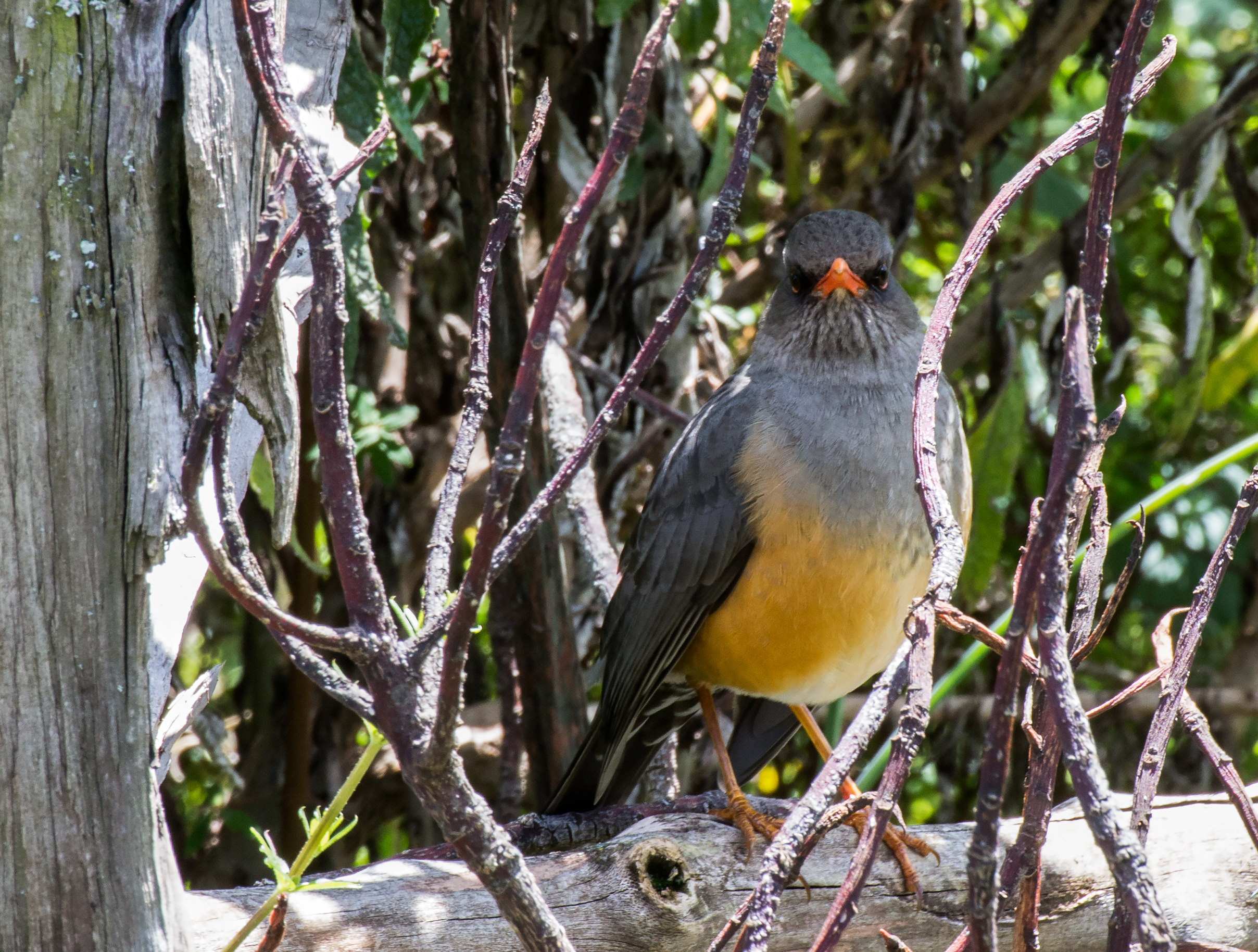 Abyssinian thrush, turdus abyssinicus abyssinicus